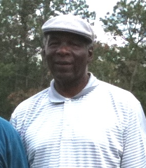 Cropped photograph of Billy Joe Dupree posing with his foursome at the 2009 Woodlands Celebrity Golf Classic.